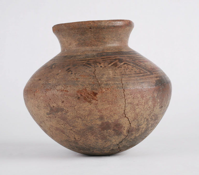 A Polychrome jar in the permanent collection of The Children’s Museum of Indianapolis.